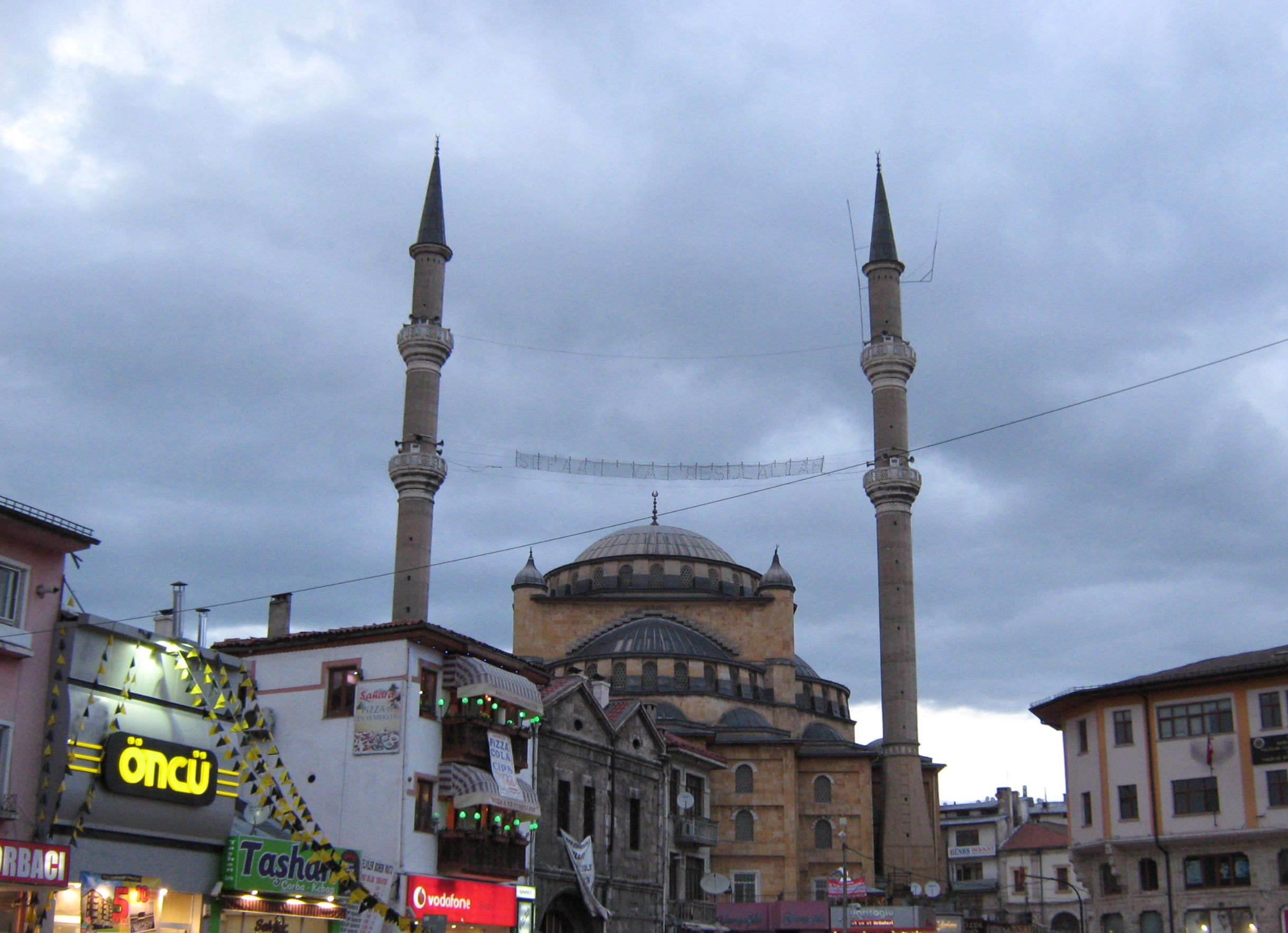 Paşa-mosque of Sivas